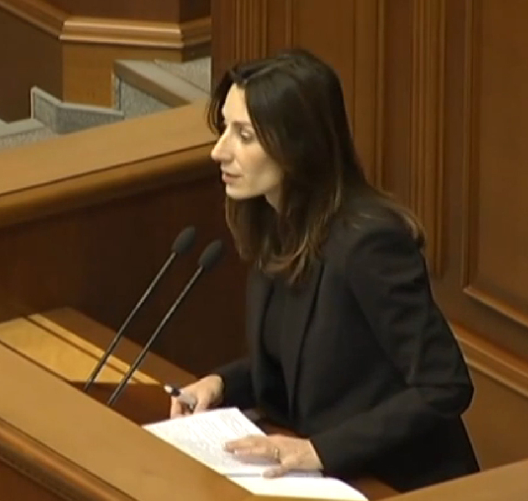 Ekaterine "Eka" Zguladze (Ekaterina Zguladze-Glucksmann) is a Georgian and Ukrainian government official, currently serving as First Deputy Minister of Internal Affairs of Ukraine, the position she assumed on 17 December 2014. She had served as Georgia's First Deputy Minister of Internal Affairs from 2006 to 2012 and Acting Minister of Internal Affairs in 2012.